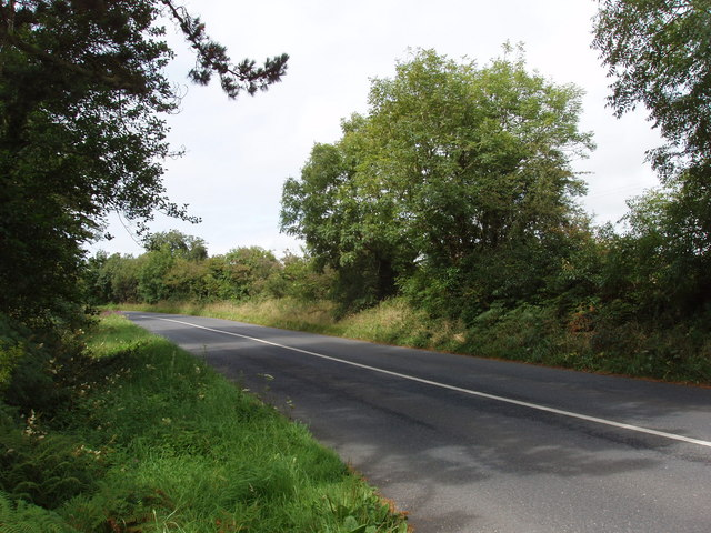 R684 road out of Dunmore East This is "The Blasketts" just outside Dunmore East on the road to Waterford.